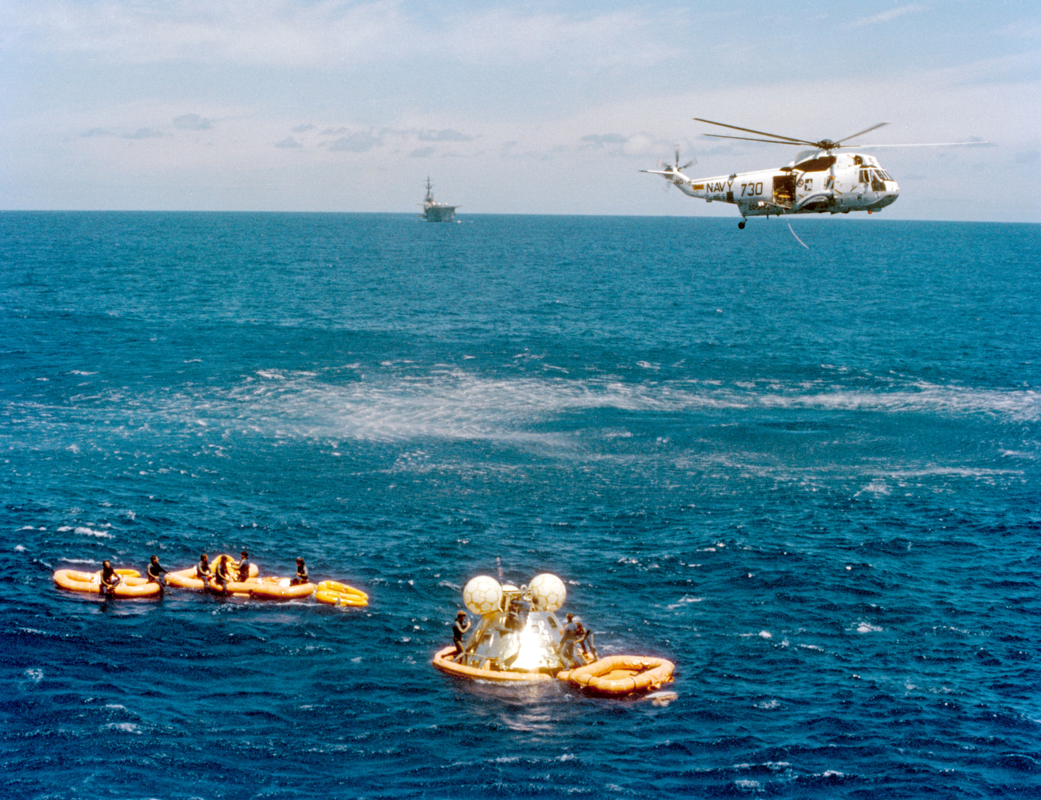 The Apollo–Soyuz Test Project Apollo Command Module, with astronauts Thomas P. Stafford, Vance D. Brand and Donald K. Slayton still inside, awaits pickup by the prime recovery ship, USS New Orleans (LPH-11), following splashdown in the Central Pacific Ocean to conclude the historic joint U.S.-USSR Apollo-Soyuz Test Project docking mission in Earth orbit. The CM touchdown occurred in the Hawaiian Islands area at 16:18 hrs (CDT), 24 July 1975. A team of U.S. Navy swimmers assists with the recovery operations. A Sikorsky SH-3A Sea King recovery helicopter (BuNo 152104) of Helicopter Anti-Submarine Squadron 6 (HS-6) "Indians" hovers overhead.